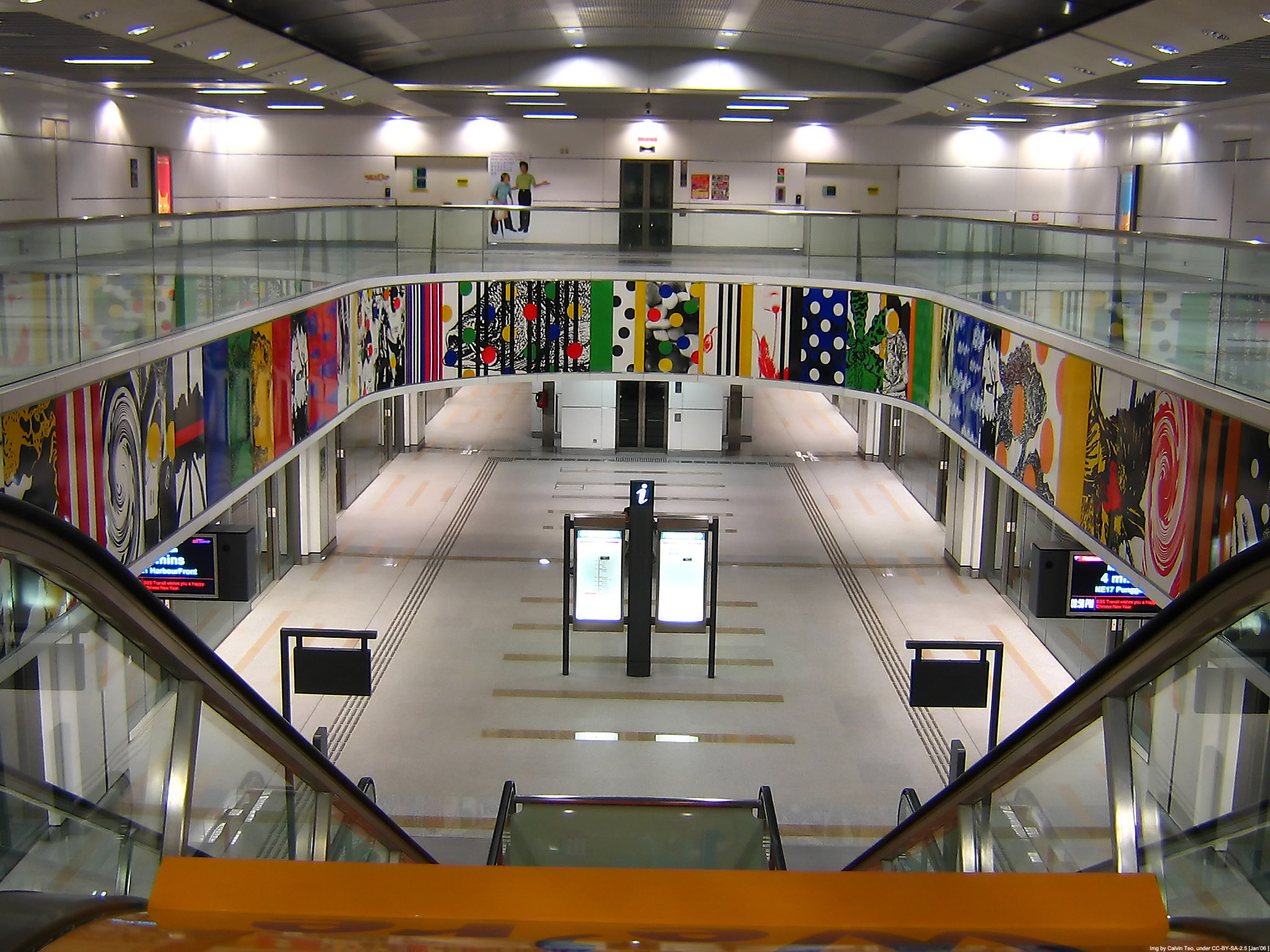 The newly opened Buangkok Station (NE15) on the North East Line in Singapore, run by train operator SBS Transit. Img taken by Calvin Teo, January'06